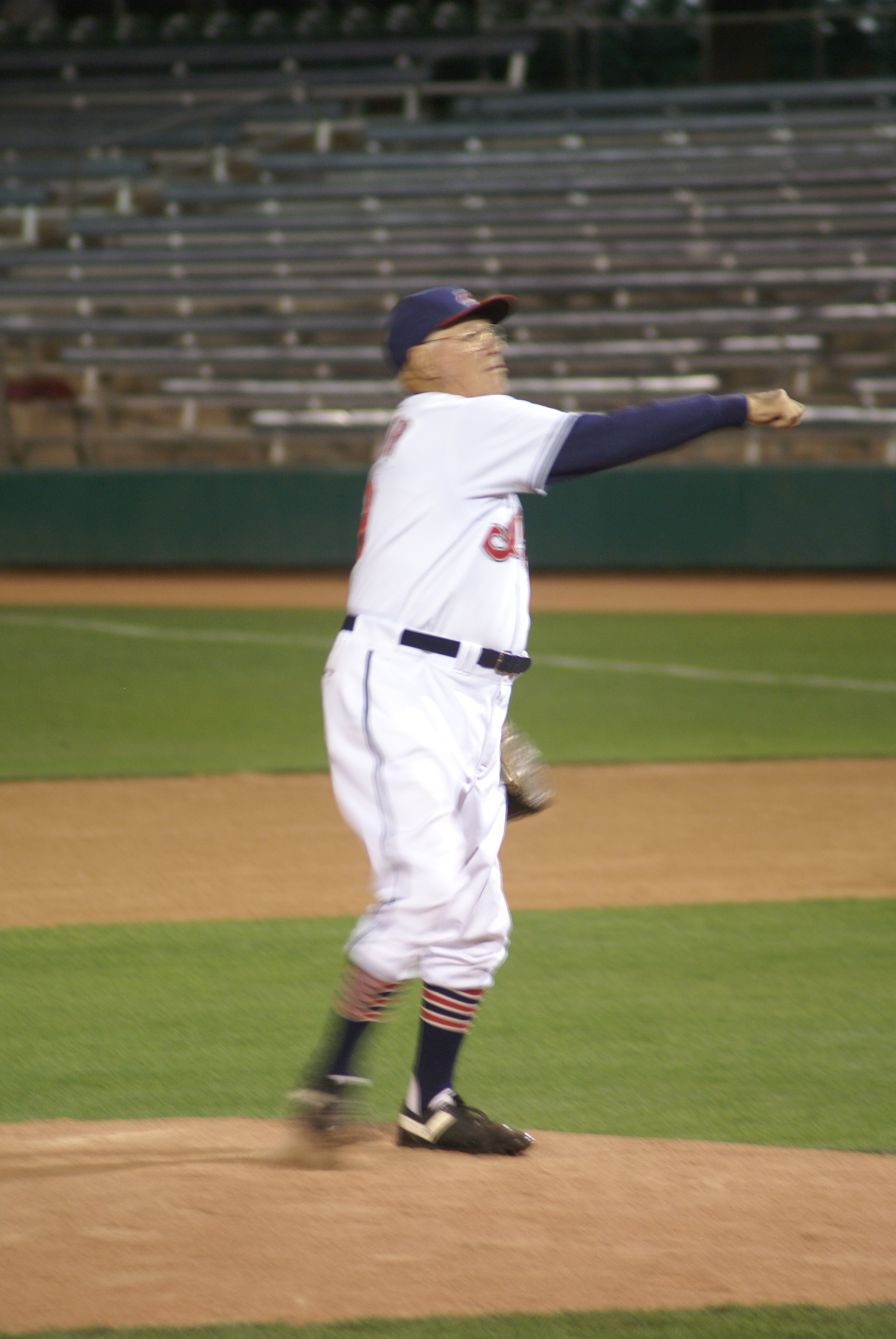 Bob Feller, throwing off the mound.